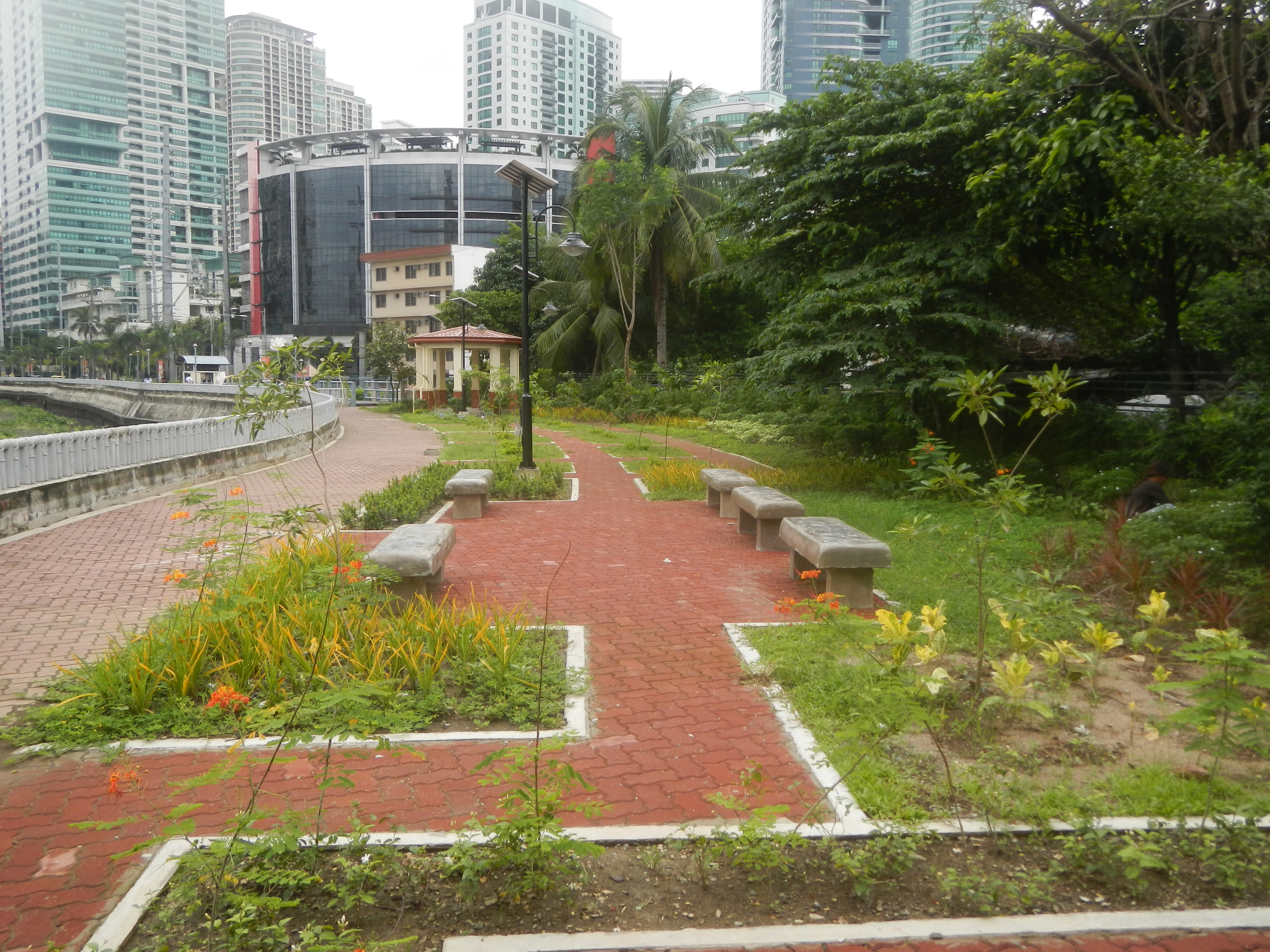 J.P. Rizal Avenue or J. P. Rizal Street 3 - meter existing easement PRRC Linear Park (Poblacion Makati City) Poblacion, Makati City Clock-Bell Tower List of museums in Metro Manila Museo ng Makati Barangay Hall and Buildings of List of barangays of Metro Manila, Legislative districts of Makati, Barangay Poblacion, Makati, Makati City (Note: Judge Florentino Floro, the owner, to repeat, Donor Florentino Floro of all these photos hereby donate gratuitously, freely and unconditionally all these photos to and for Wikimedia Commons, exclusively, for public use of the public domain, and again without any condition whatsoever).